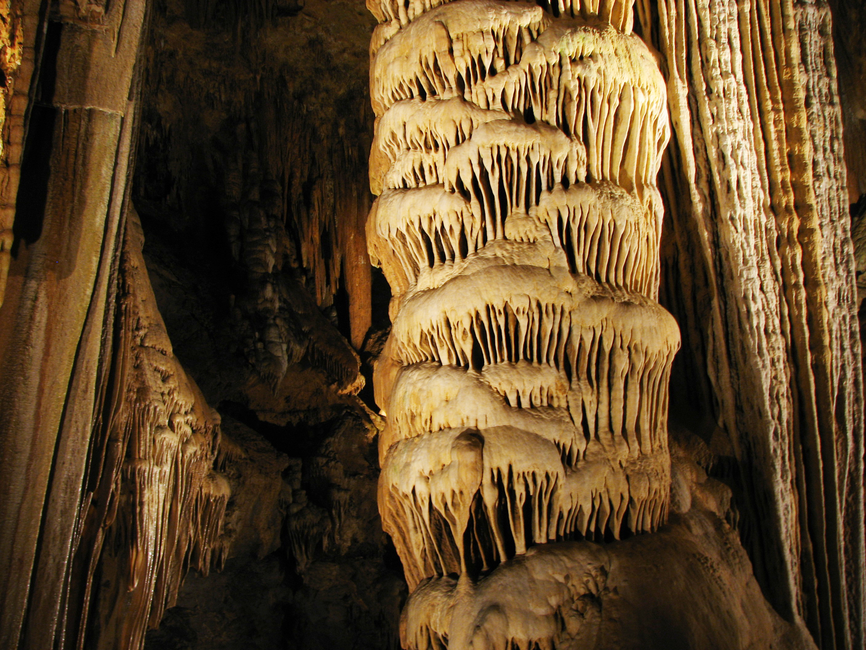 Luray Caverns